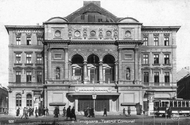 Comunal Theater, Timișoara, Romania, built 1875.